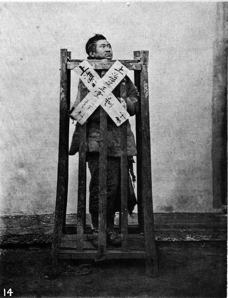 Photograph by John Thomson. See detail on the Wikisource link below.